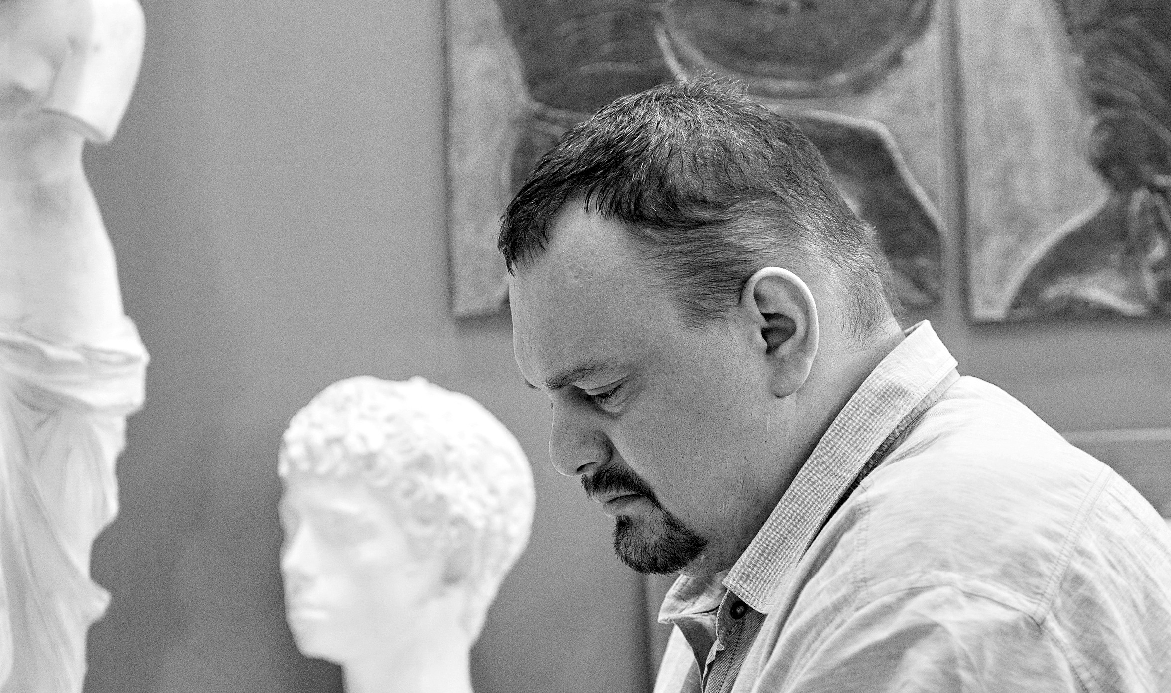 Russian artist—sculptor Korzhev Ivan.